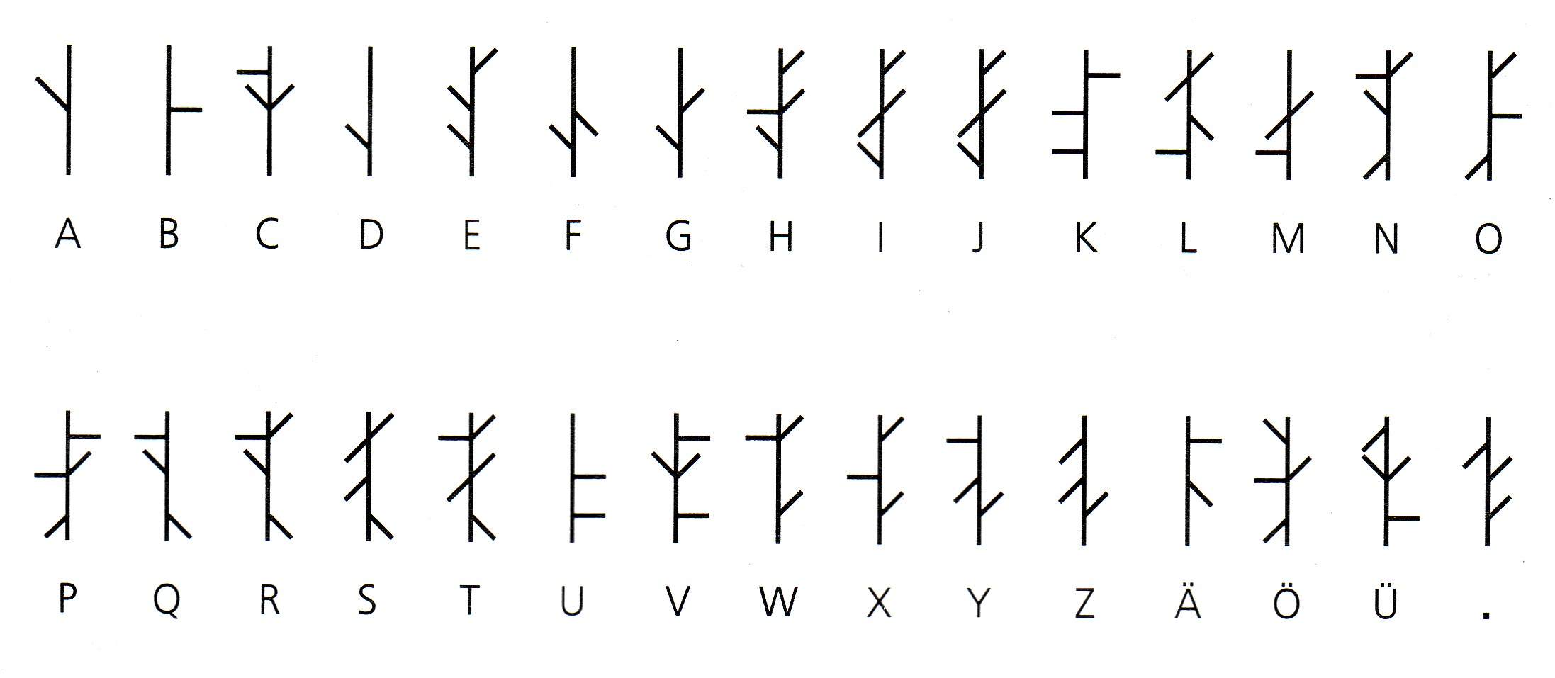 Code used by the Prussian Optical Telegraph between Berlin and Koblenz. All arms used.